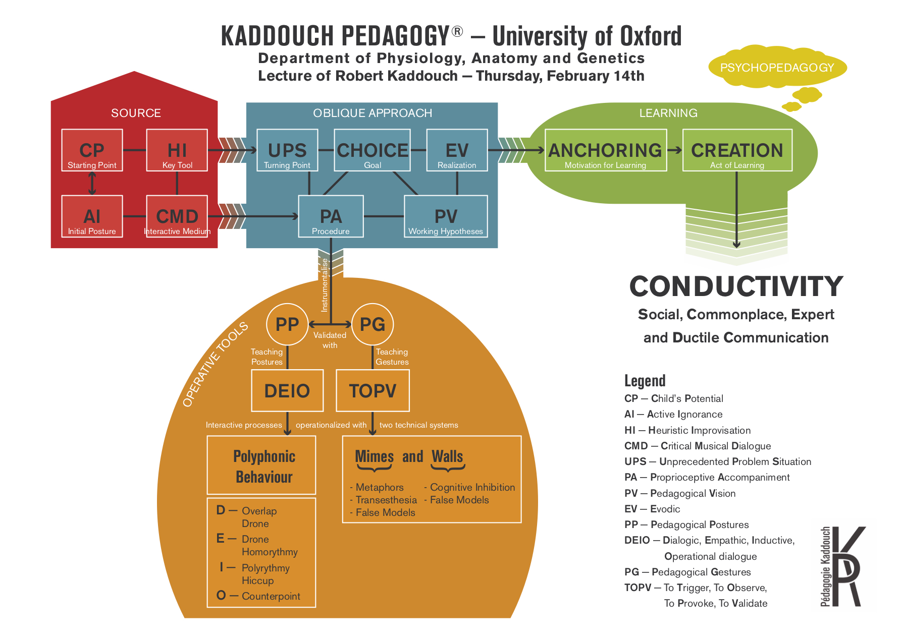 Conductivity : Kaddouch Pedagogy